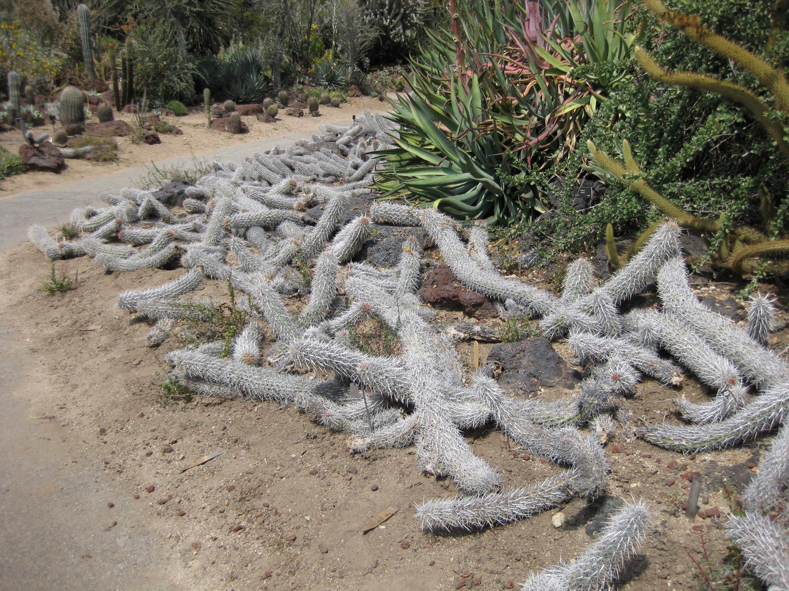 Photographed at Huntington Gardens (Los Angeles) in April